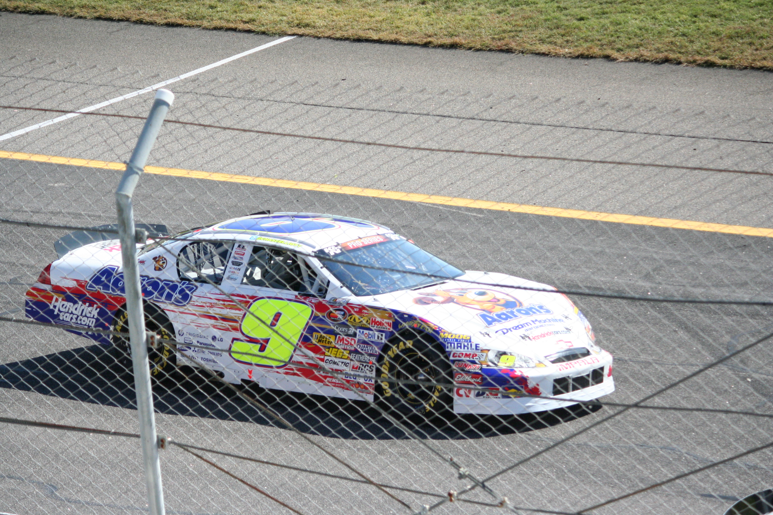 Chase Elliott in the NASCAR K&N Pro Series race at Rockingham Speedway, November 3, 2012.